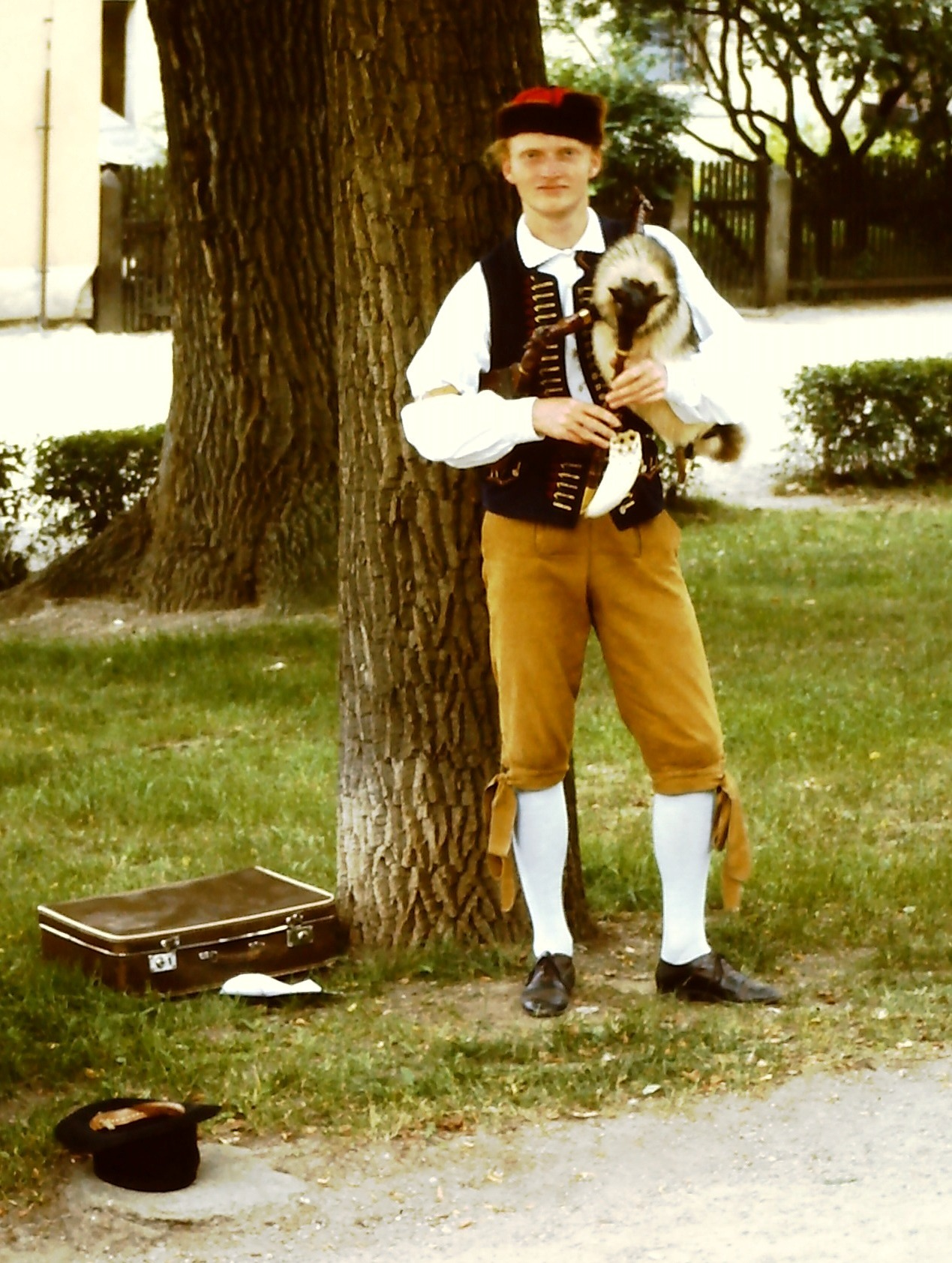 Bellows type bagpipe player in the traditional costume of South Bohemia